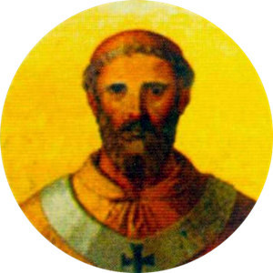 Portait of Pope Benedict VI in the Basilica of Saint Paul Outside the Walls, Rome